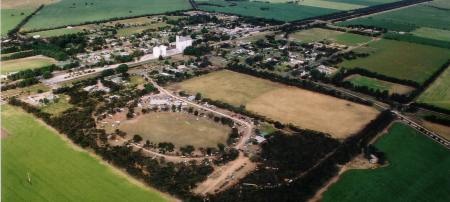 Aerial view of Coonalpyn, taken during the Coonalpyn Show 2003.